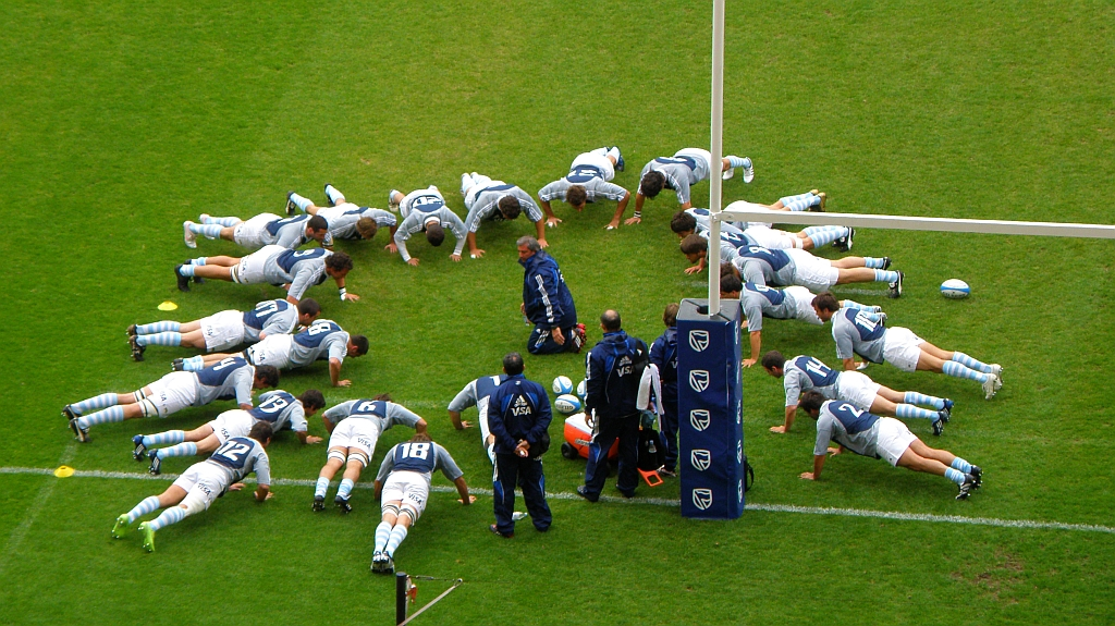 Push-ups at Old Trafford, Manchester before a rugby match Argentina vs England.